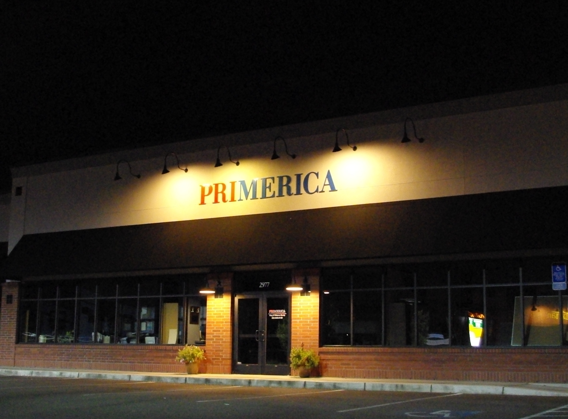 Primerica office in Hillsboro, Oregon.